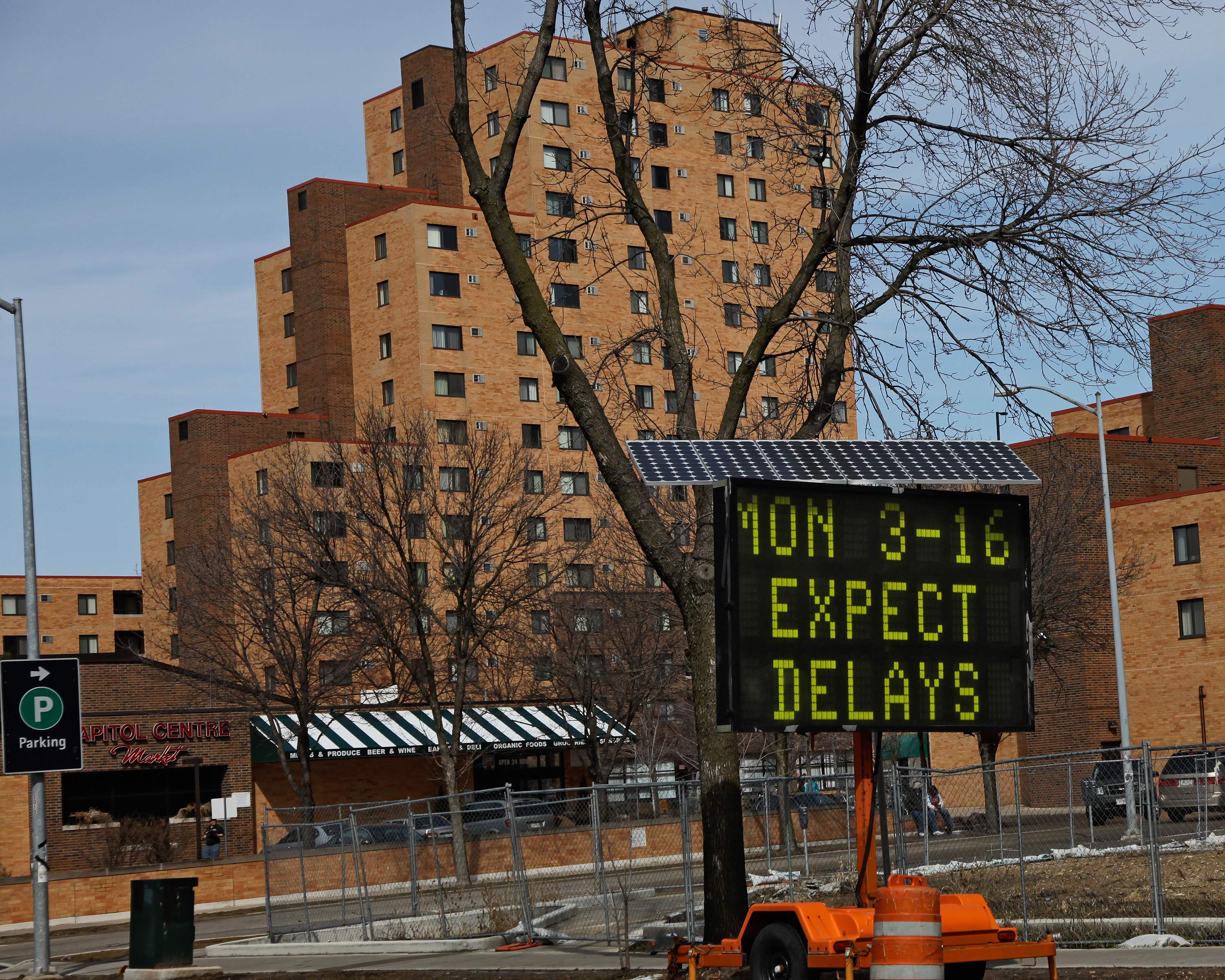 Capitol Centre I, Madison, WI – In more ways than one. First, it's a sign that we're changing seasons from winter to road construction, which the old saw says are the only two seasons Wisconsin has. The other is this is a solar powered sign. A lot easier to use and maybe even greener than the technologies for road signs that preceded it.